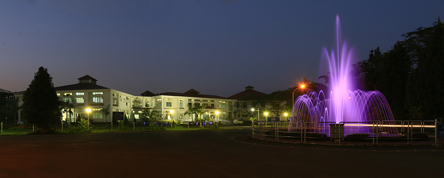 Tezpur University (Assamese:তেজপুৰ বিশ্ববিদ্যালয়) is an Indian Central University in Tezpur in the state of Assam, India by an act in Parliament of India in 1994.